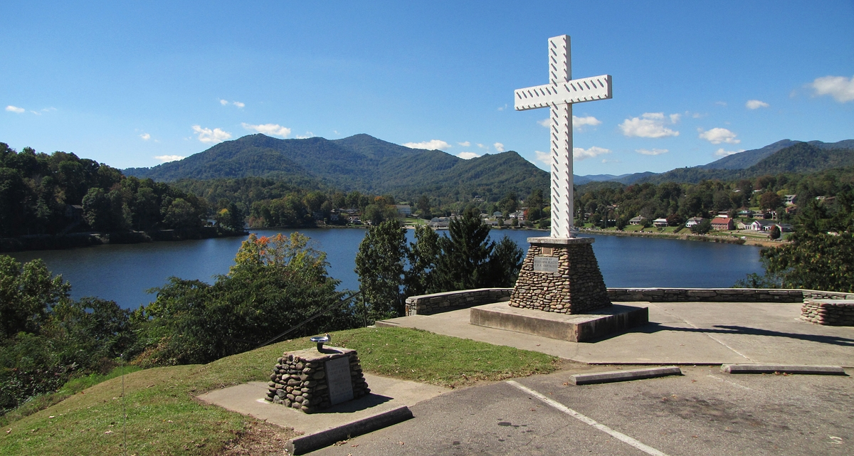 Lake Junaluska near Waynesville, NC